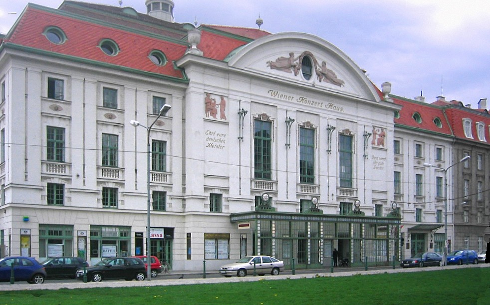 Vienna, Wiener Konzerthaus (concert hall)